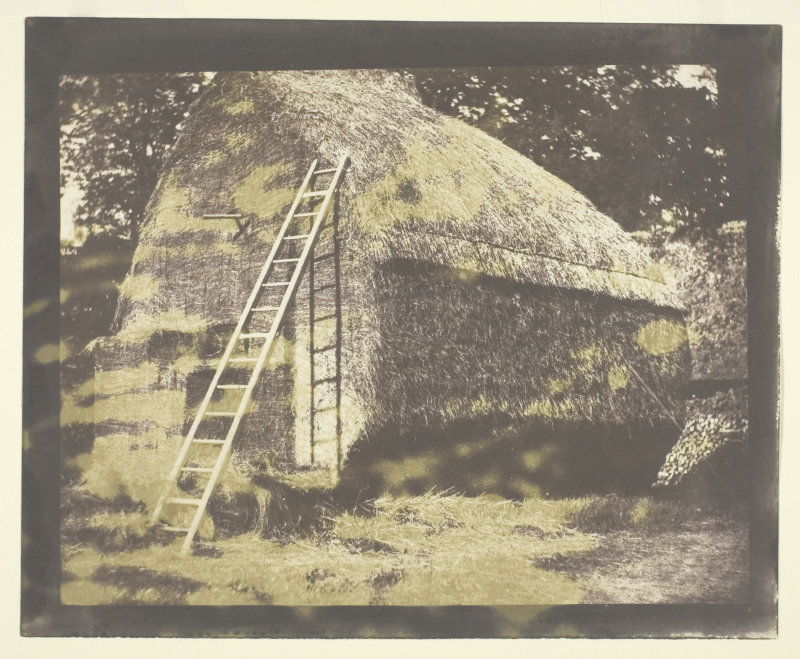 Salted paper print by Henry Fox Talbot